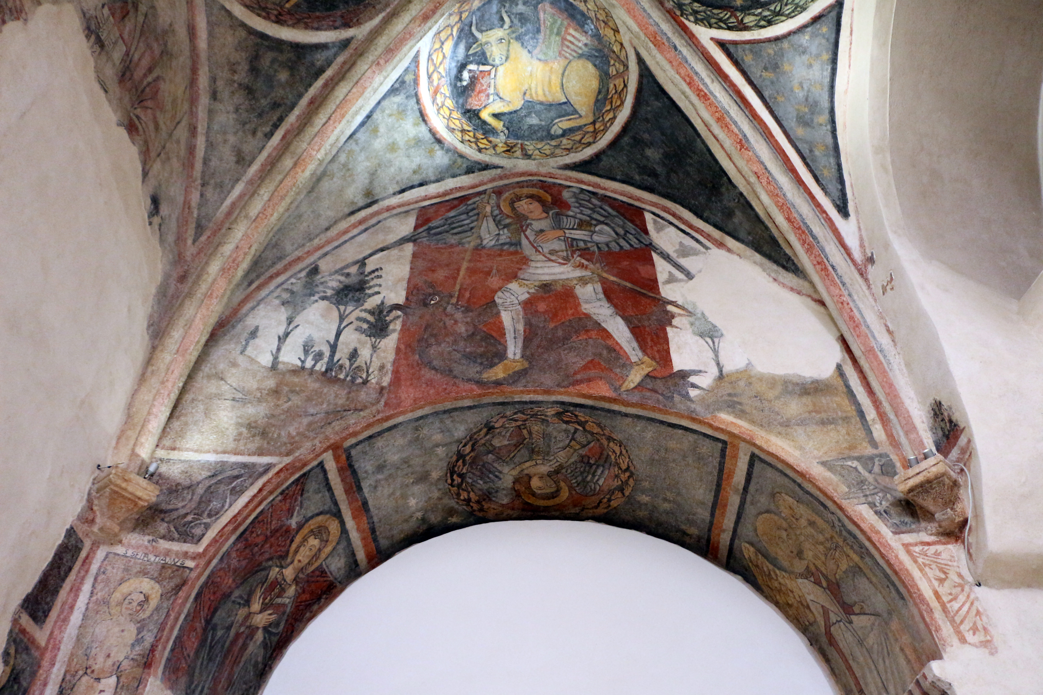 Chiesa Madre (Noci)